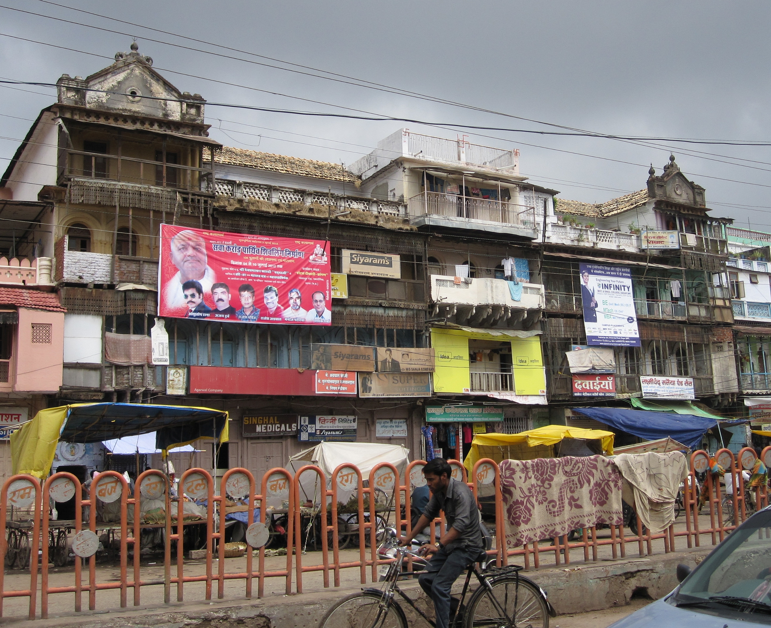 1910 4-story mansion in Katra, Sagar.